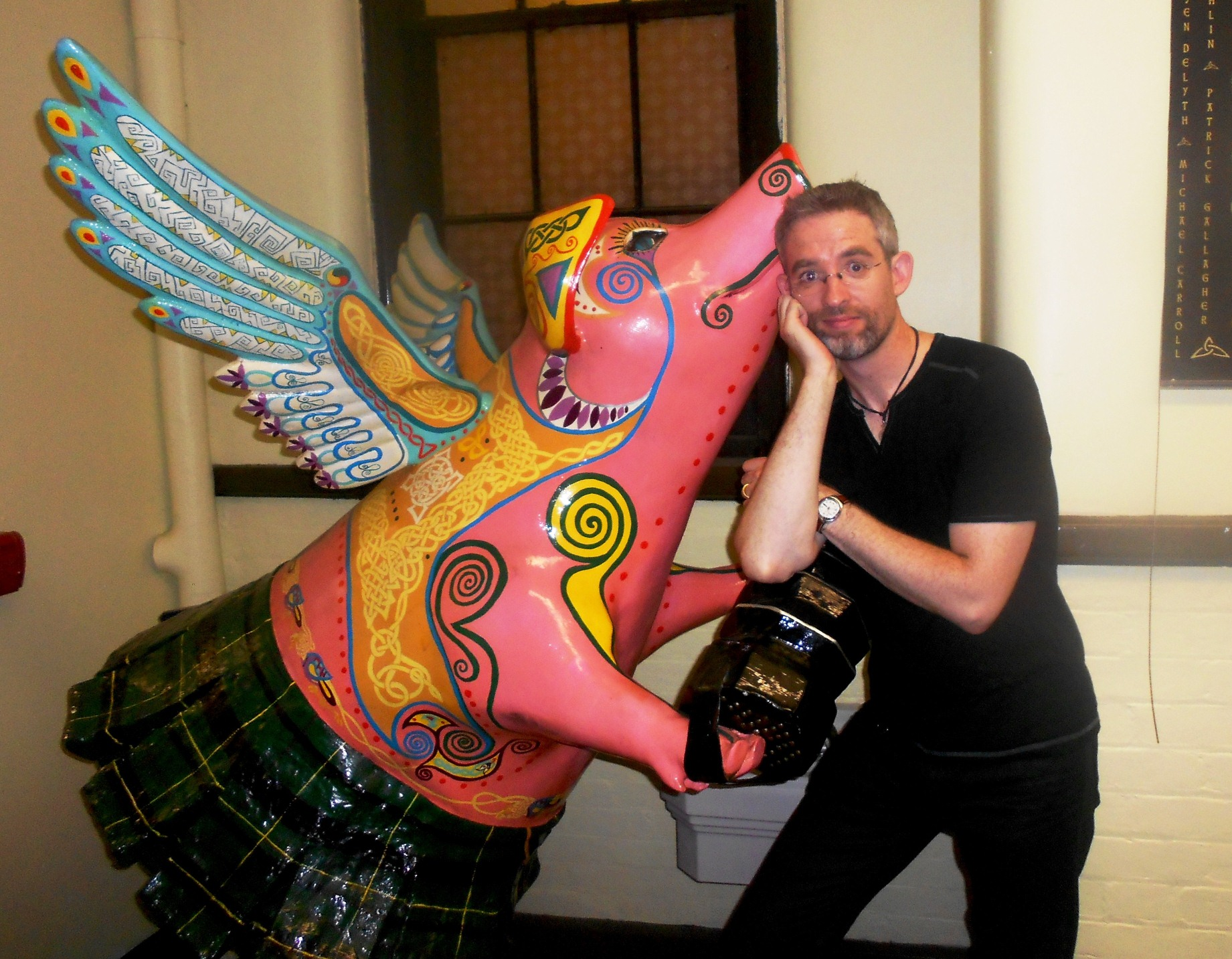 Enda Scahill with Cincinnati's Famous Flying Pig